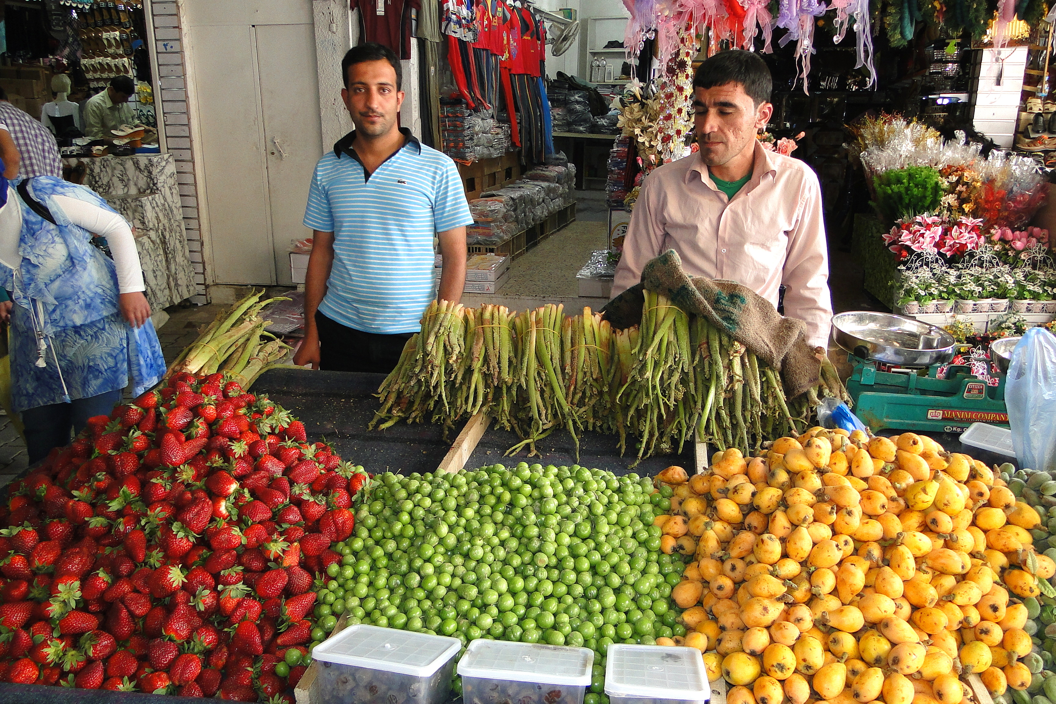 Fruit and Vegetable Sellers - Bazaar - Erbil - Iraq